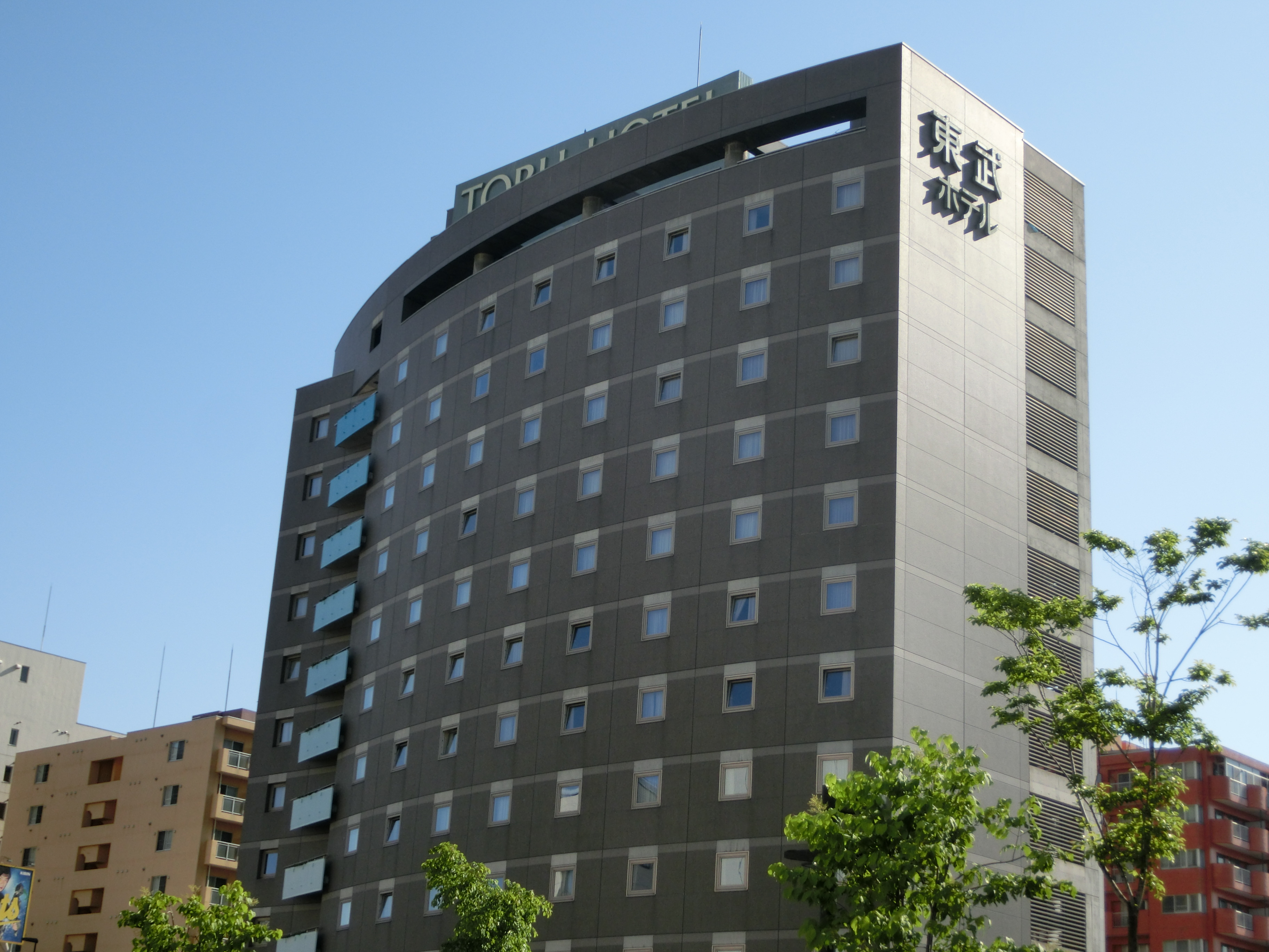 Sapporo Tobu Hotel